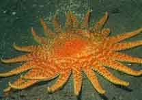 Sunflower starfish (Pycnopodia helianthoides)